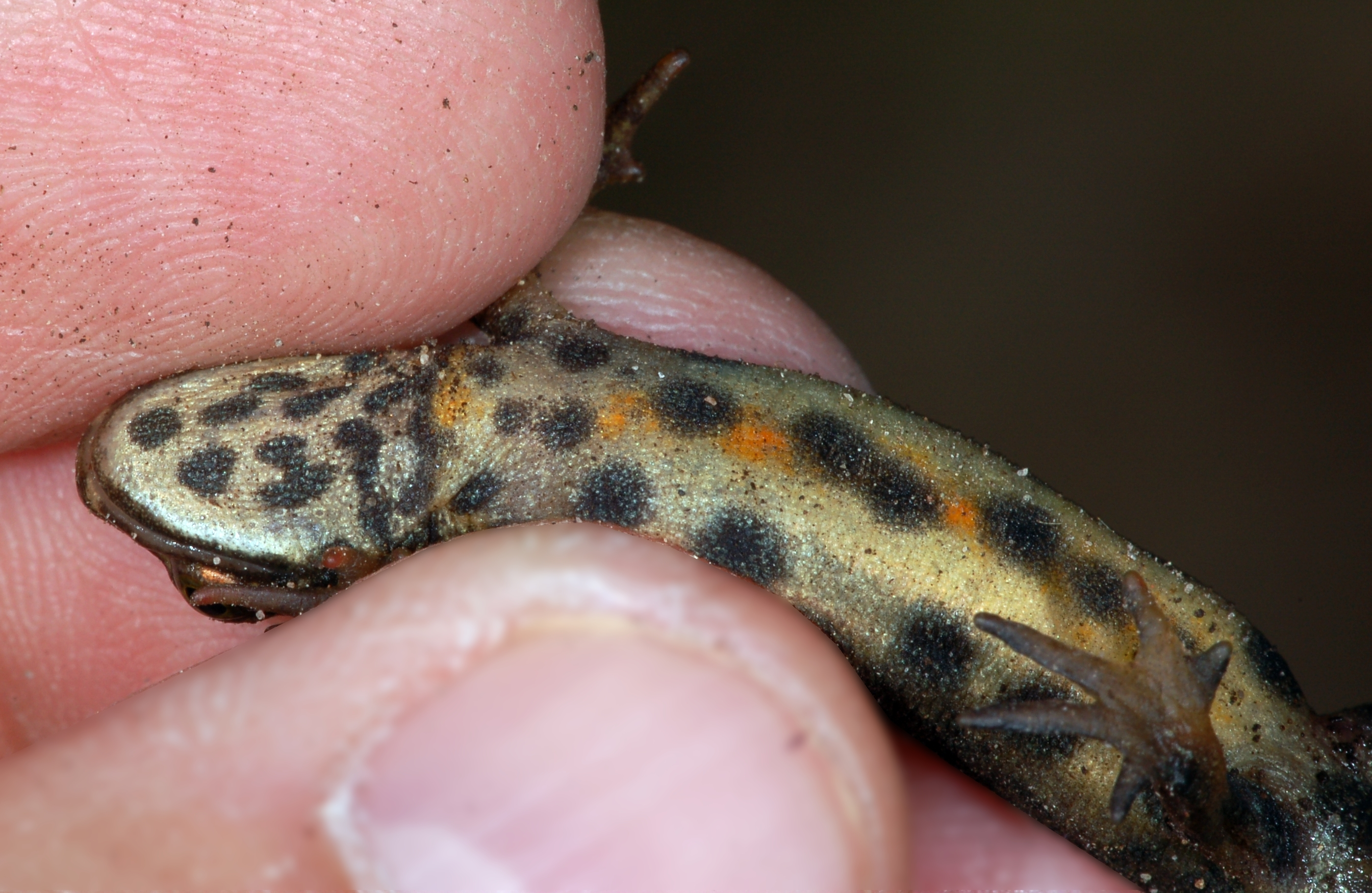 Smooth Newt, Triturus vulgaris, Schwanheimer Dune, Frankfurt/Main, Germany